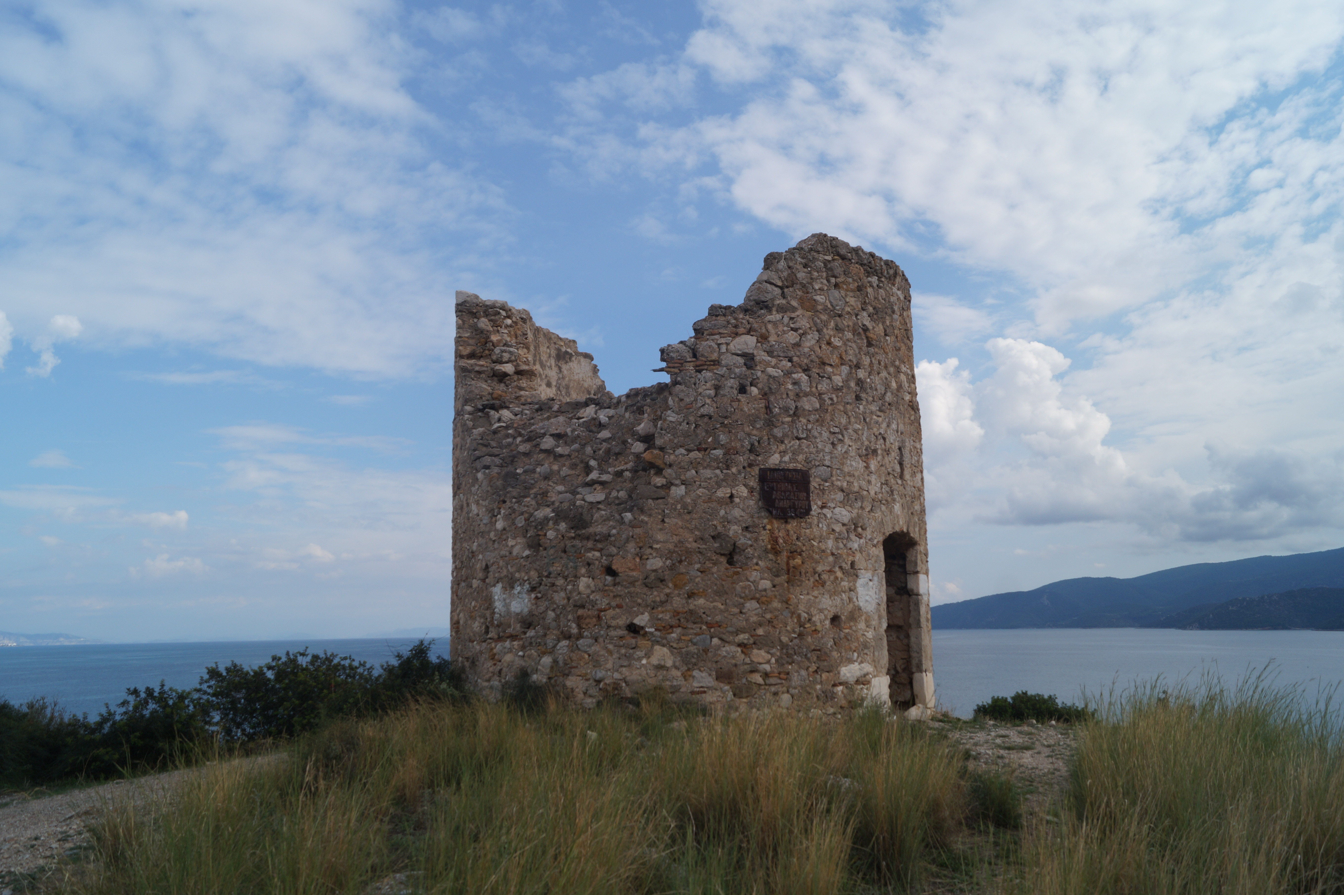 Loutra Oreas Elenis, Corinthia, Greece: Ruins of a windmill on Cape Kechries.